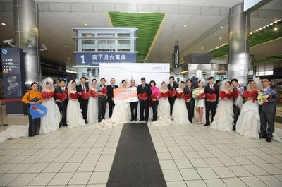 “ROC Centennial–Love at THSR” event